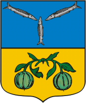 Balashov (Saratov oblast), coat of arms (1780)